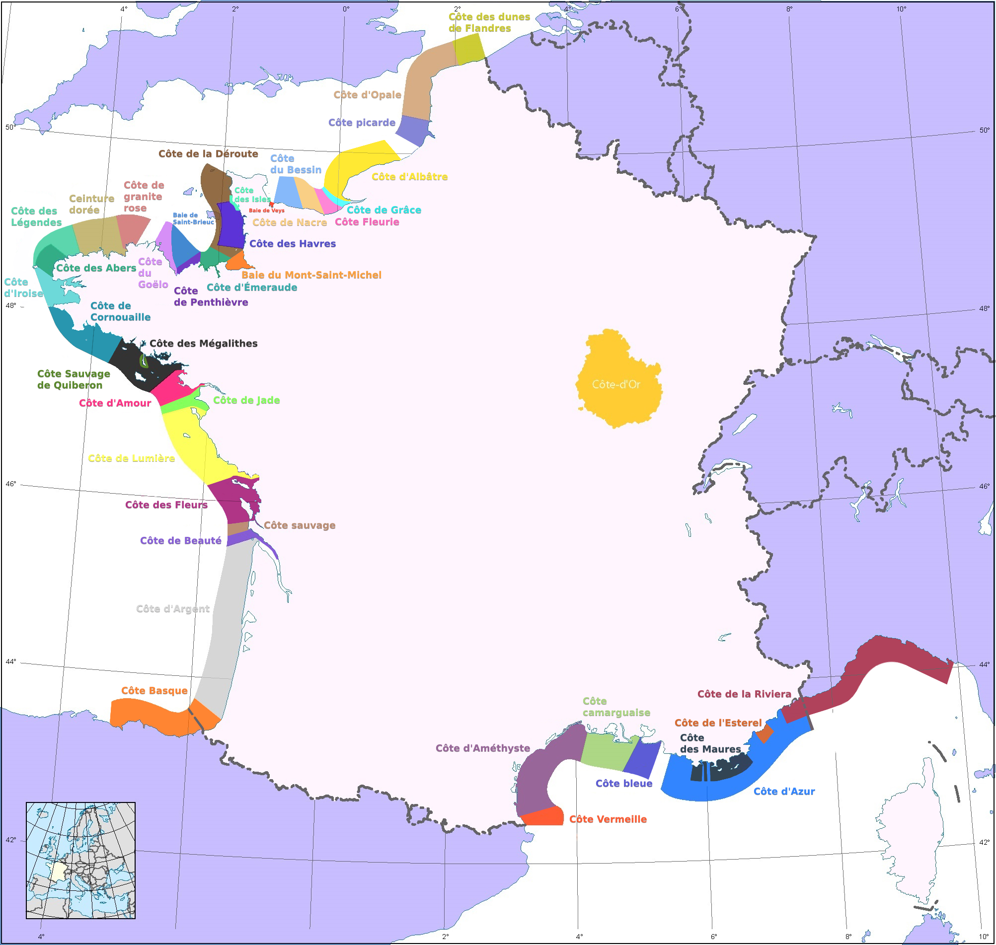 Map of the "Côtes" of France. Littoral parts that are named. The département of Côte-d'Or appears because the coastlines are named from derivates of its name (Côte d'or means gold coast).